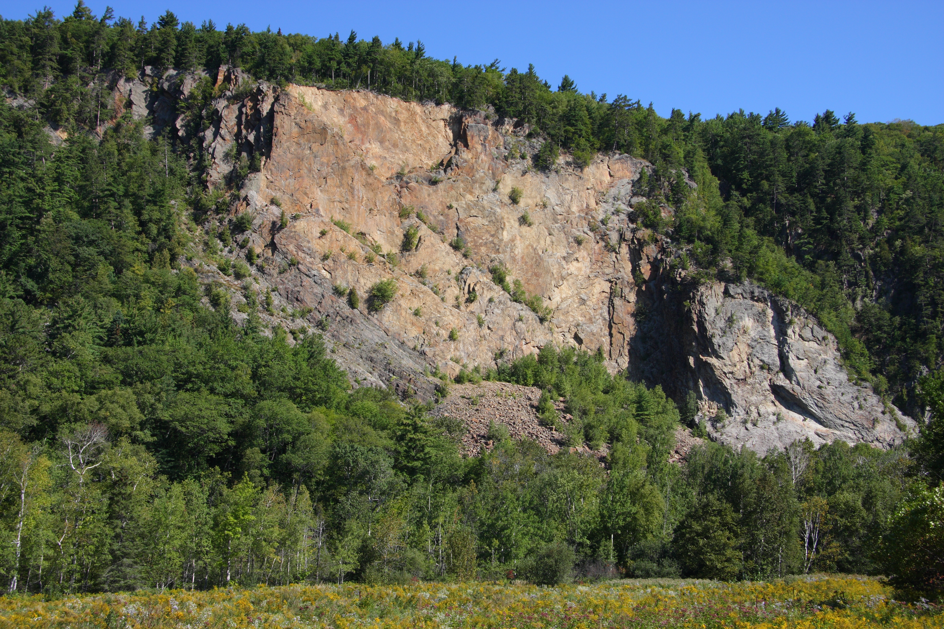 The "Pergrin falcon" cliff, Cap Tourmente National Wildlife Area, Quebec, Canada